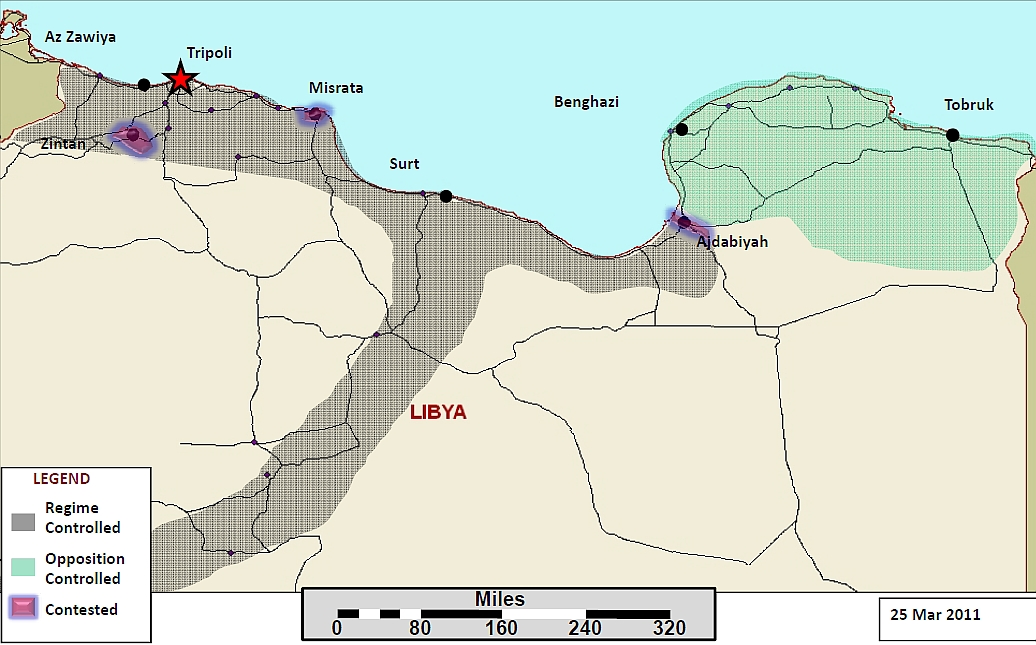 Operation Odyssey Dawn. Libya Situation Update 25 March 2011 (cropped Version).